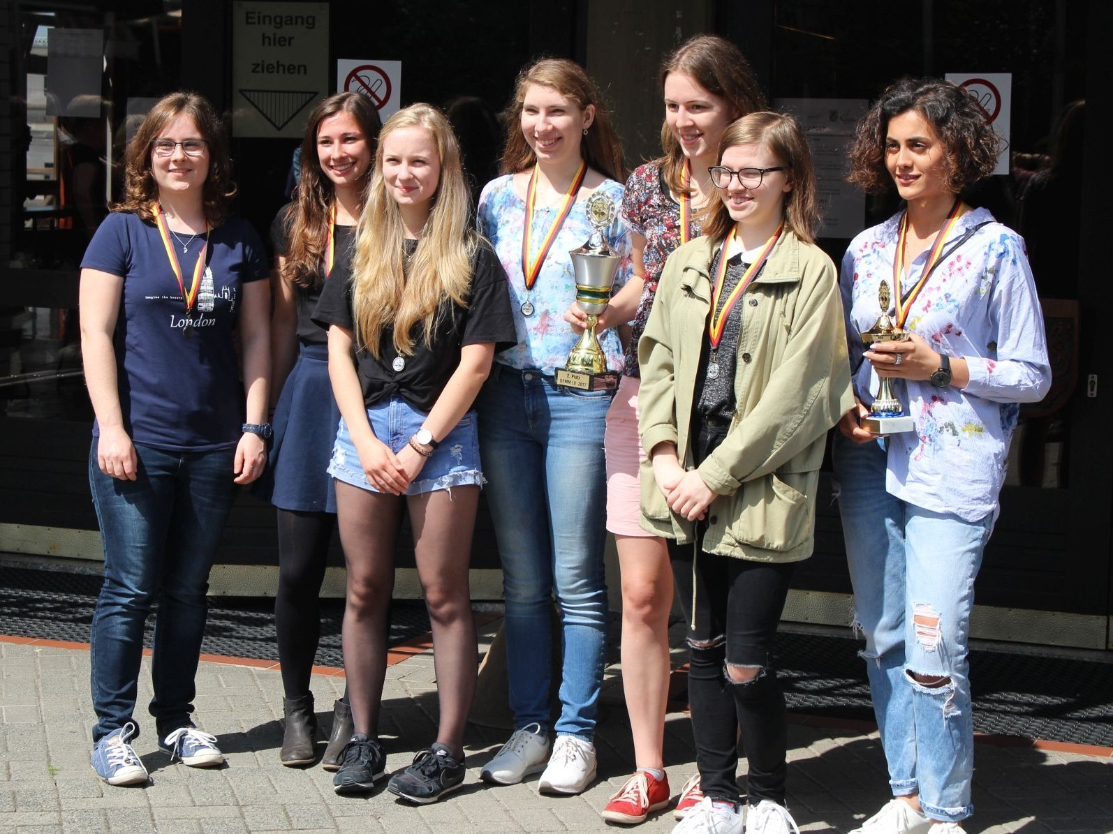 Platz 2 DFMM LV Braunfels 2017: Bayern Jugend. Abgebildet sind von links nach rechts: Lena Antczak, Katharina Mehling, Melina Siegl, Christina Winterholler, Hanna Marie Klek, Alisa Semenova und Nato Imnadze.